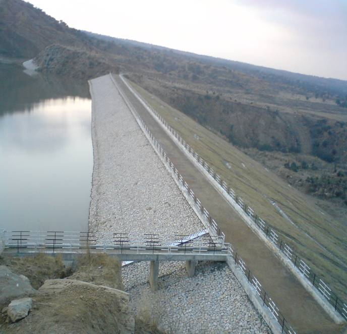 It is a View of Khai Dam , near Bhaun in Distt. Chakwal